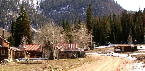 View of the historic mining camp of Lenado, Colorado, looking eastward. April 26, 2005.